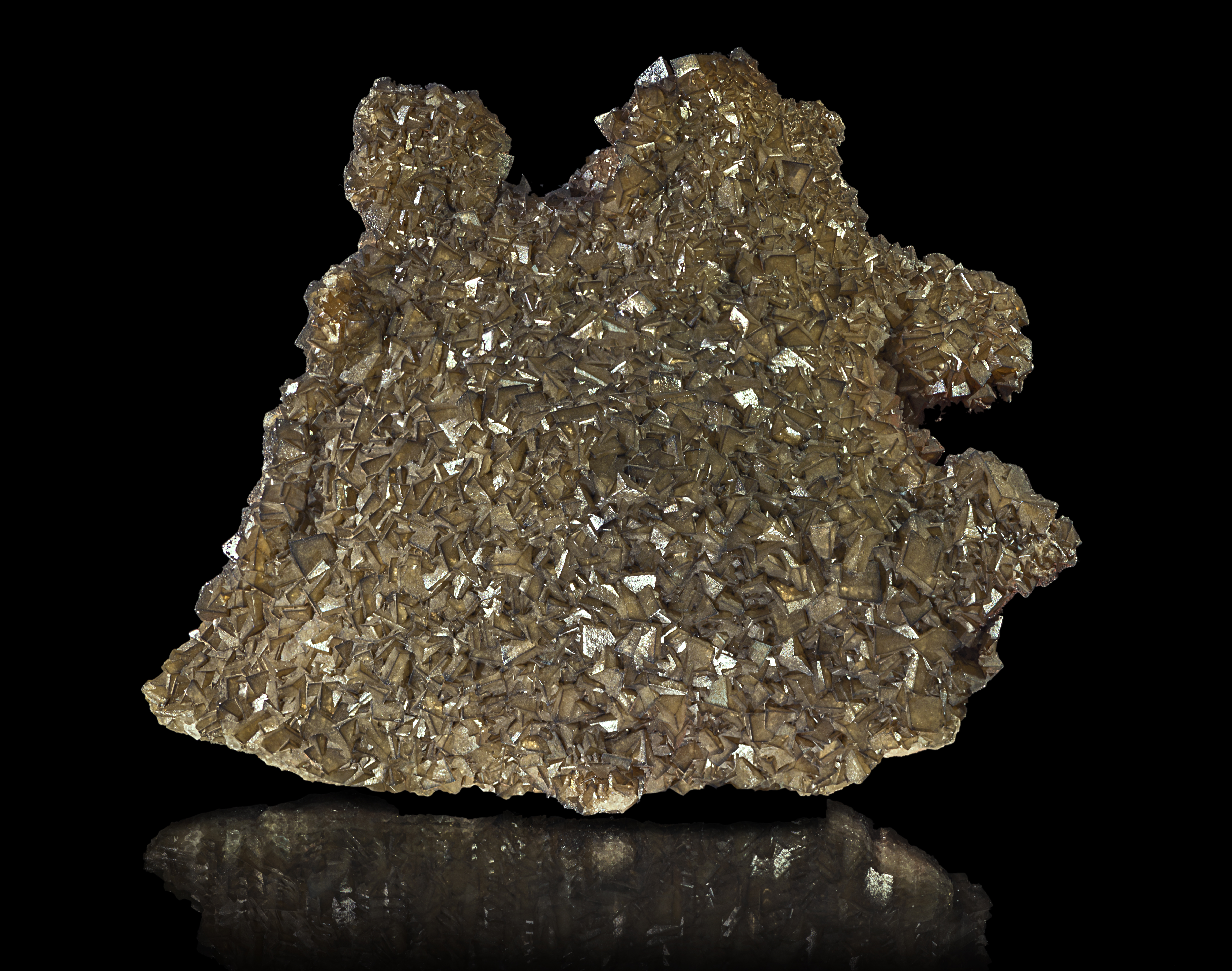 Cadmian Smithsonite Locality : Tsumeb Mine (Tsumcorp Mine), Tsumeb, Otjikoto (Oshikoto) Region, Namibia Size : 20x16x5cm